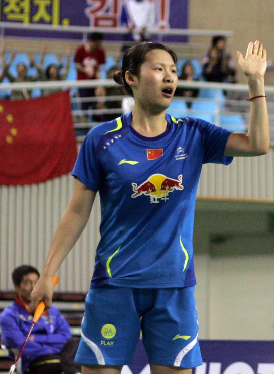 Luo Yu at the 2014 Badminton Asia Championships